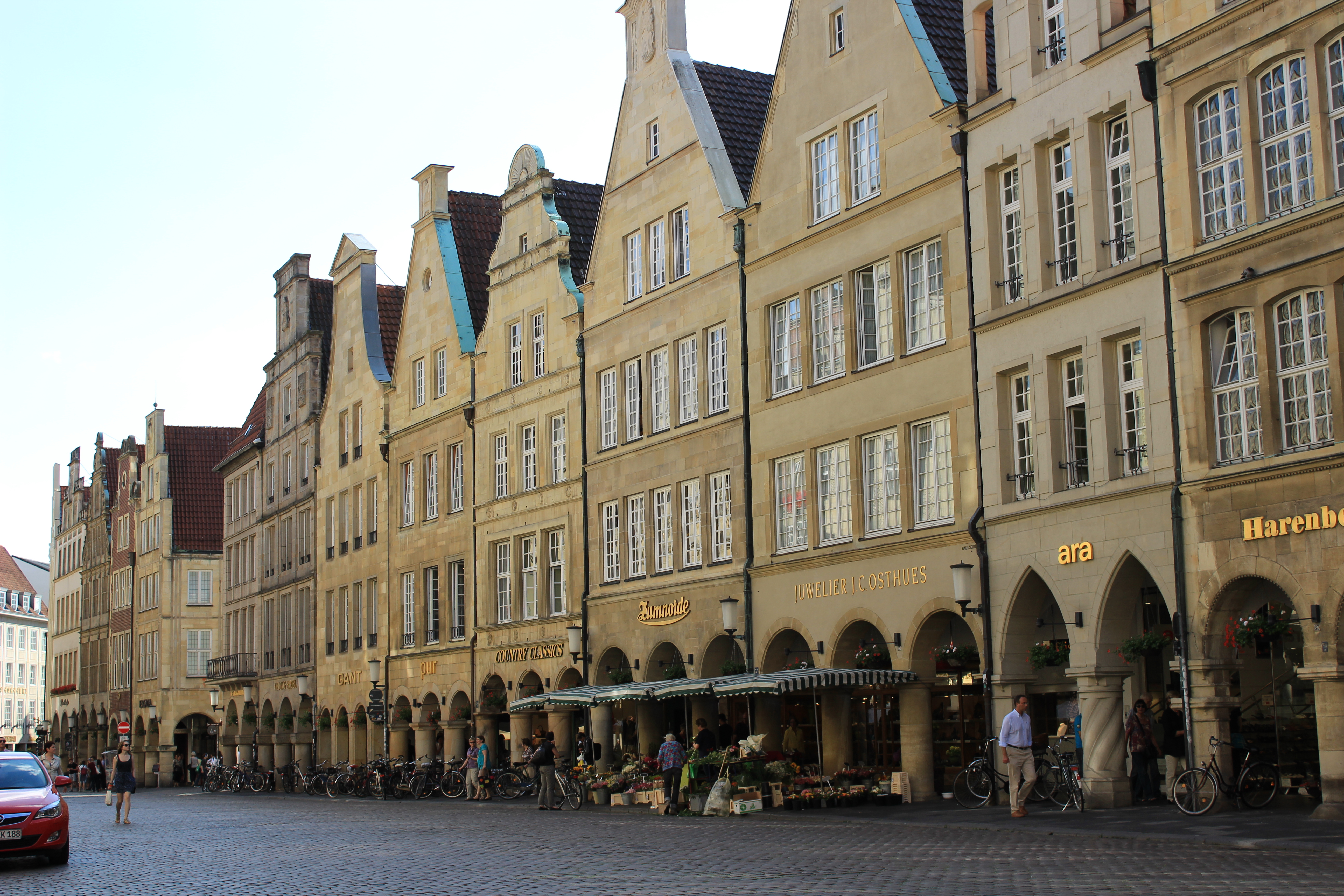 Historical View of the Buildings at the Prinzipalmarkt which had been rebuild after the 2nd worldwarTürkçe: Eski Münsterin evleri " Prinzipalmarket" 2nci dünya savasindan sonra yeni yapilmis